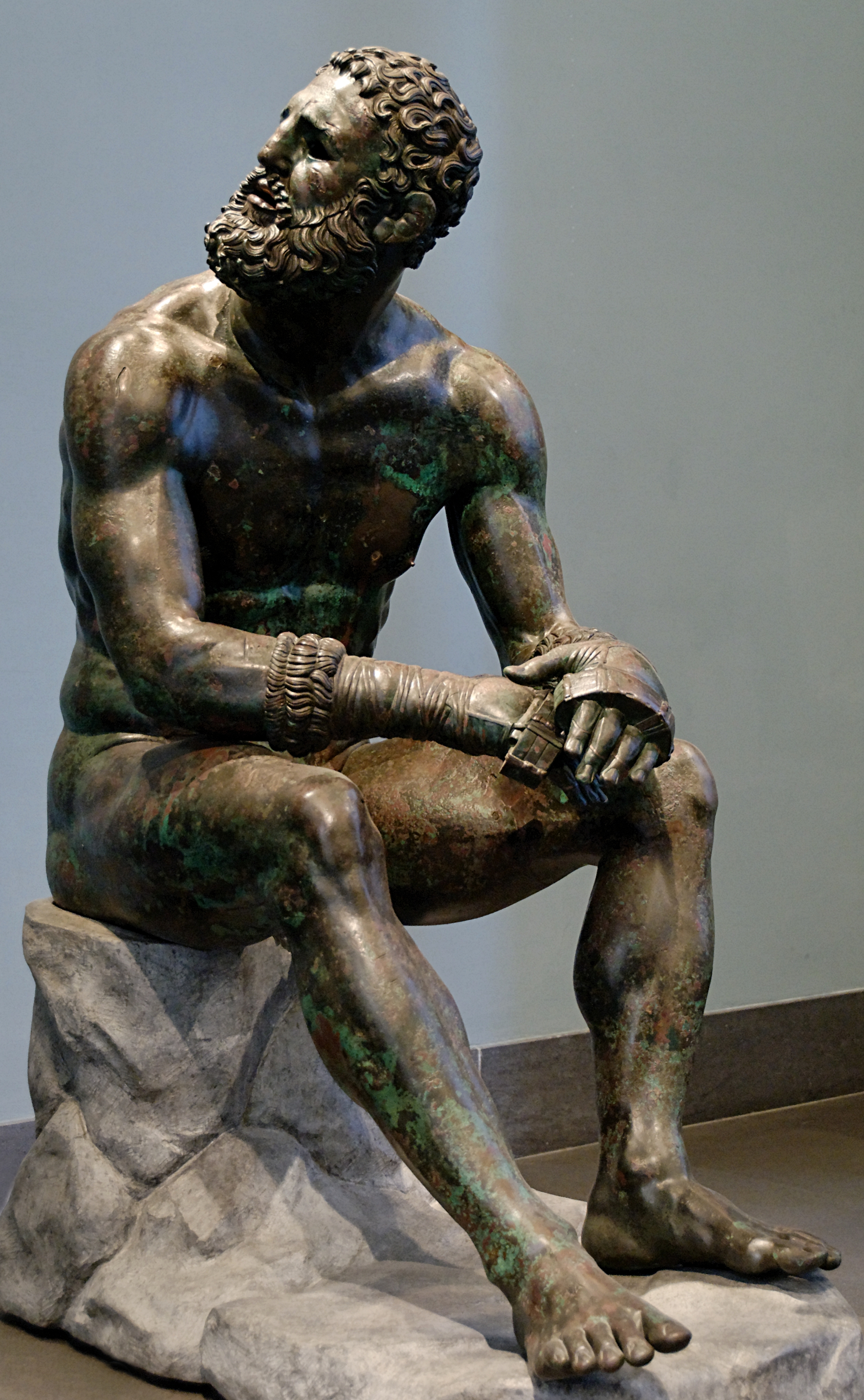 So-called “Thermae boxer”: athlete resting after a boxing match. Bronze, Greek artwork of the Hellenistic era, 3rd-2nd centuries BC (the boulder is modern and replicates the ancient one). From the Thermae of Constantine.